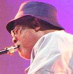 Olver Lake and Hamiet Bluiett (cropped version)